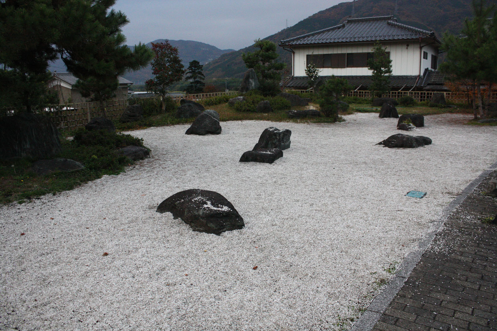 Rock Garden in Ikezuki Park, Mima Town, Mima City, Tokushima Prefecture, Japan